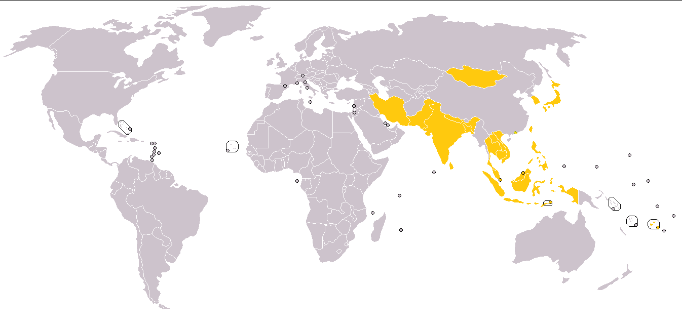 Asian Productivity Organization Member Countries